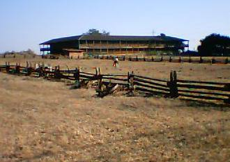 Petaluma Rancho Adobe, located in Petaluma, California, original owner General Vallejo